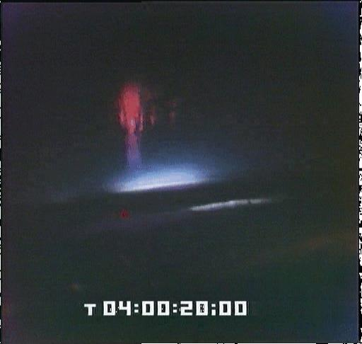 Photo of a red sprite